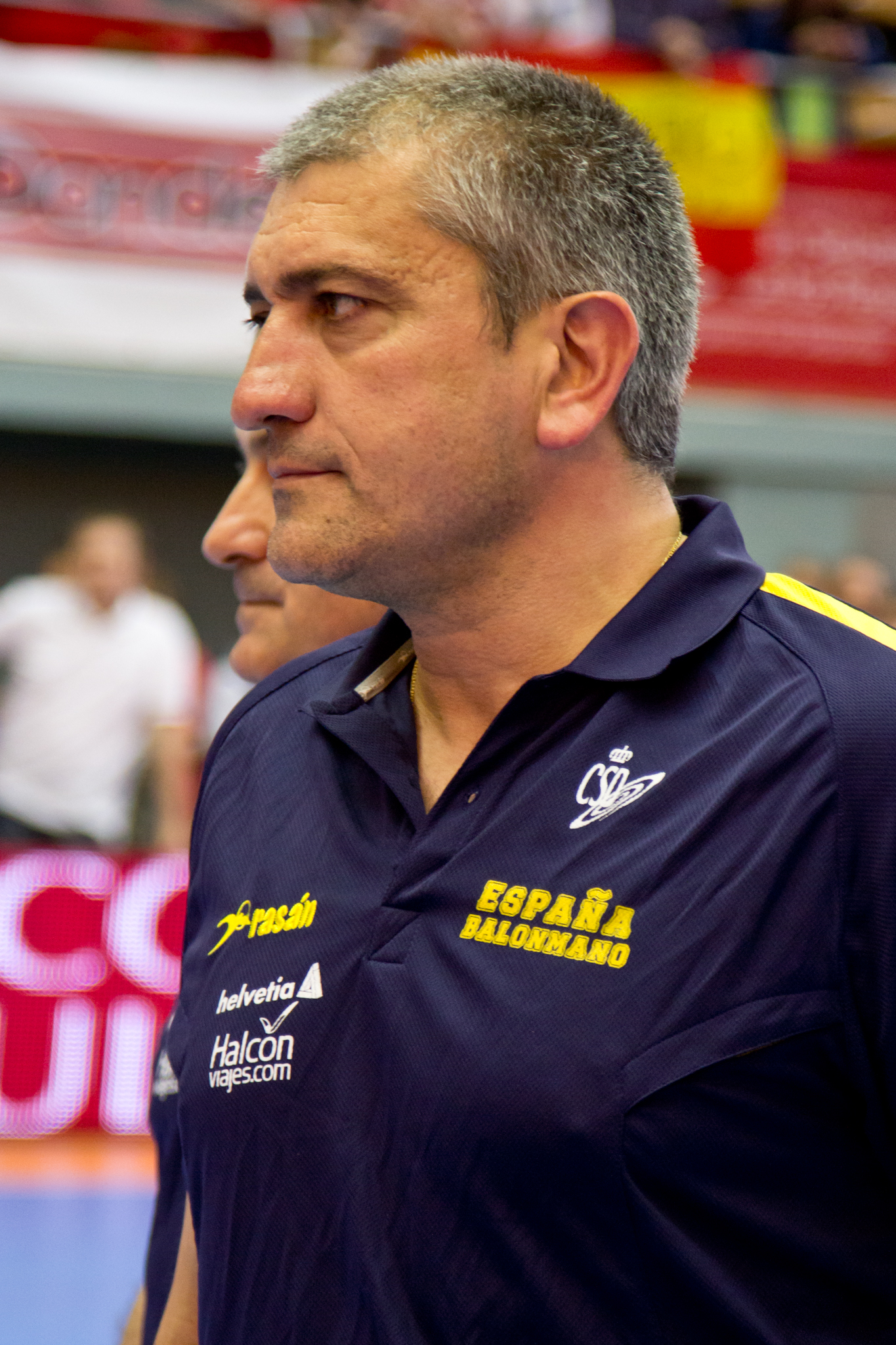 Spain Handball All Star Game 2013, held in San Sebastián de los Reyes, Madrid, Spain.